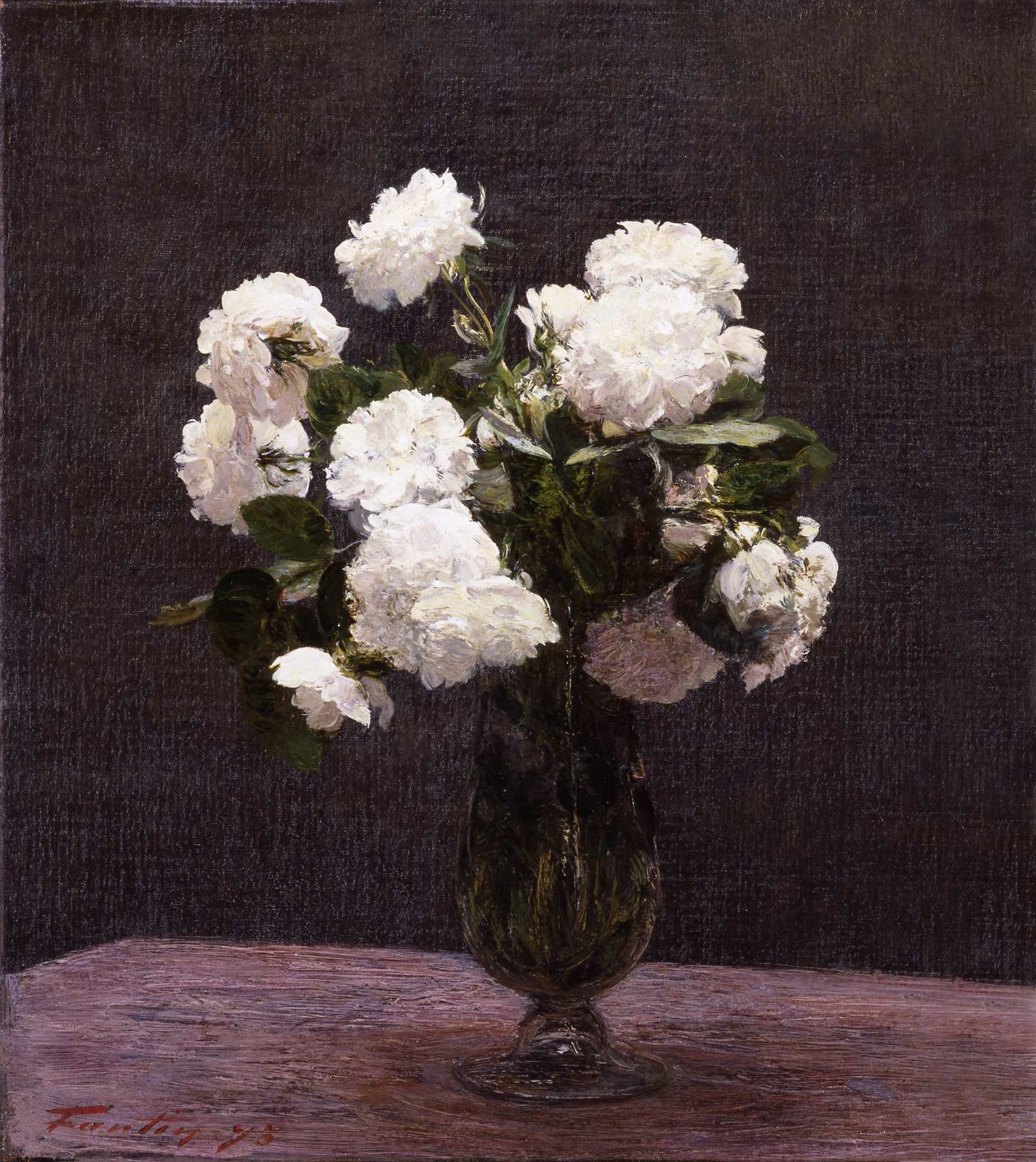 White Roses